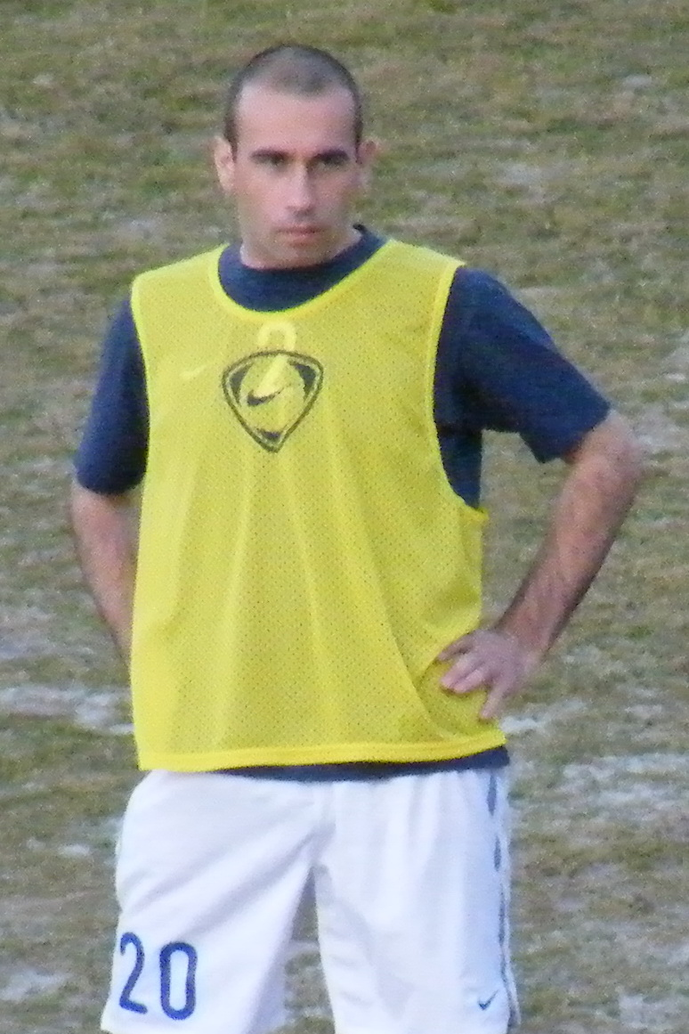 Dragan Vukmir Serbian football player